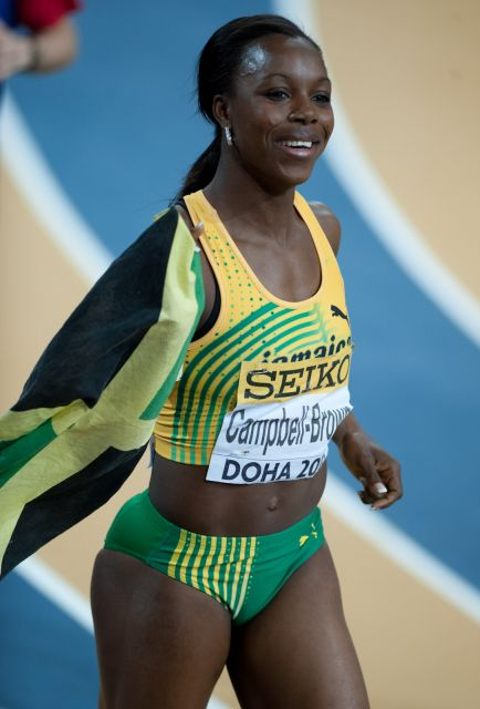 Veronica Campbell-Brown during Doha 2010 World Indoor Championships